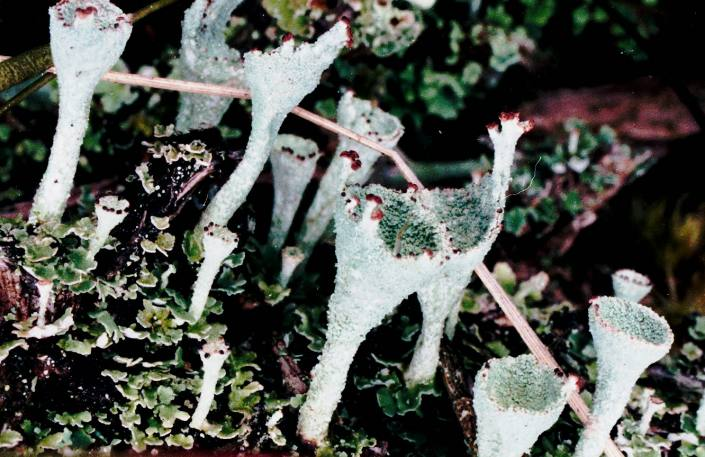 Cladonia grayi G. Merr. ex Sandst., 1929 Photographed in the field. Assumed to be Cladonia grayi which is the most prevalent chemical variant of a complex that includes: C. chlorophaea, C. cryptochlorophaea, and C. merochlorophaea. These specimens of Cladonia grayi were growing on soil along a gravel road between Deer Park Road and the Visitor Center at Soldiers Delight Natural Environment Area, Owings Mills, Baltimore County, Maryland, USA (N 39o24.716', W 76o50.164').